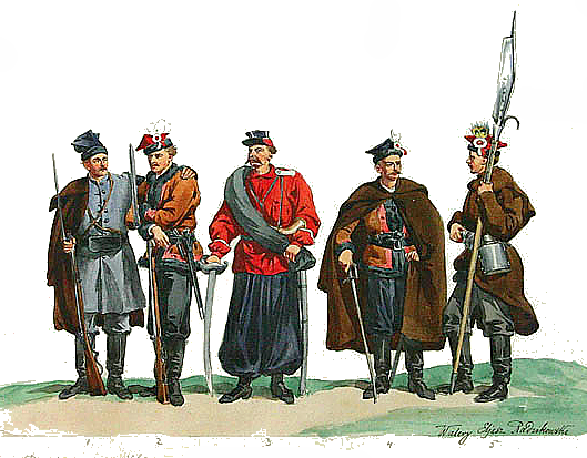 Polish infantry in 1863